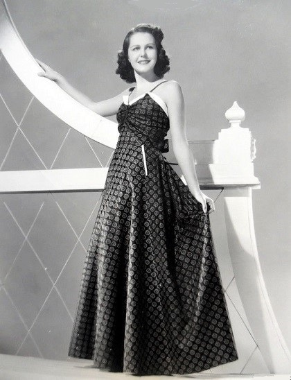 Helen Parrish from "Three Smart Girls Grow Up", publicity still